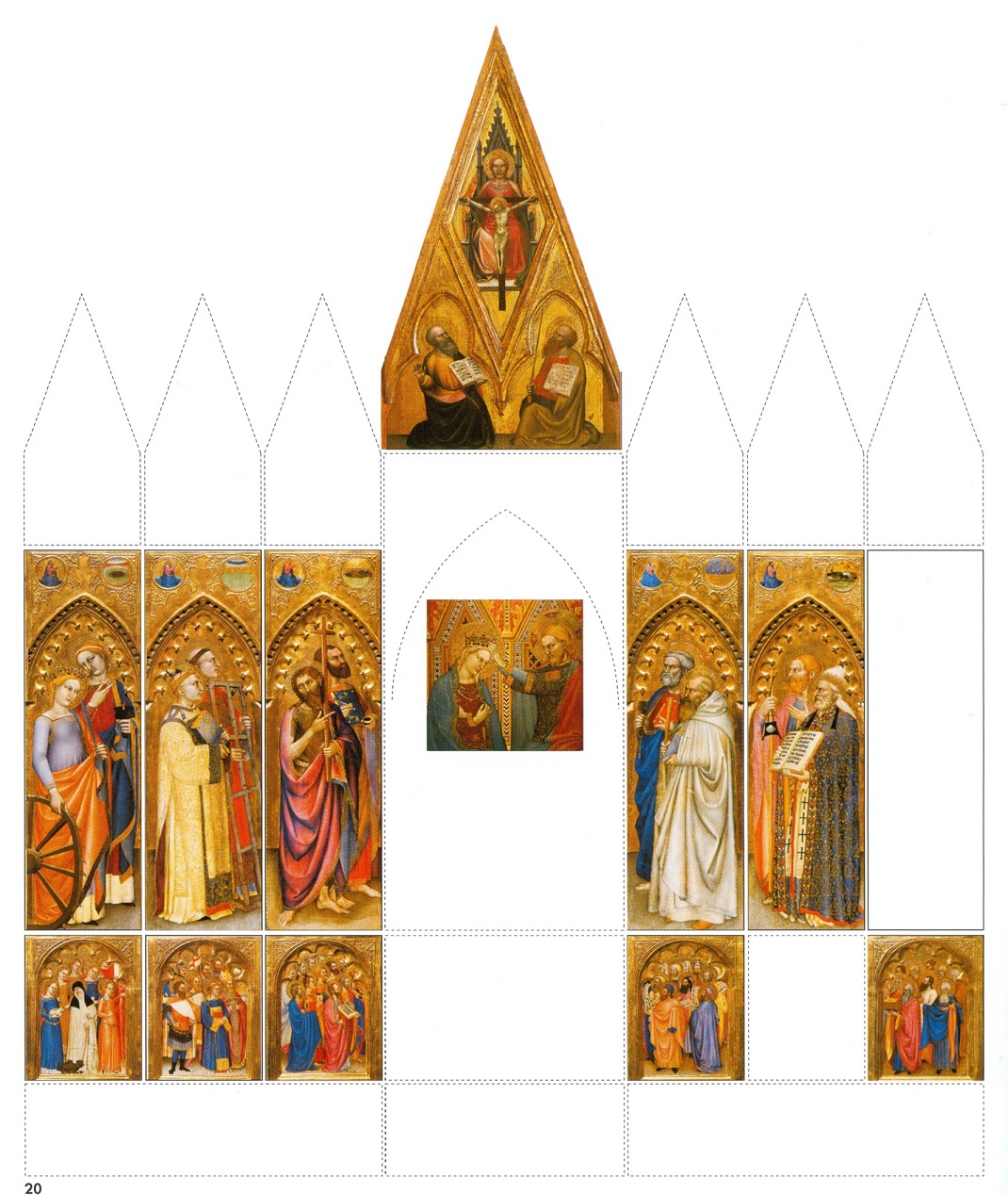 Ognissanti polyptych, reconstruction.